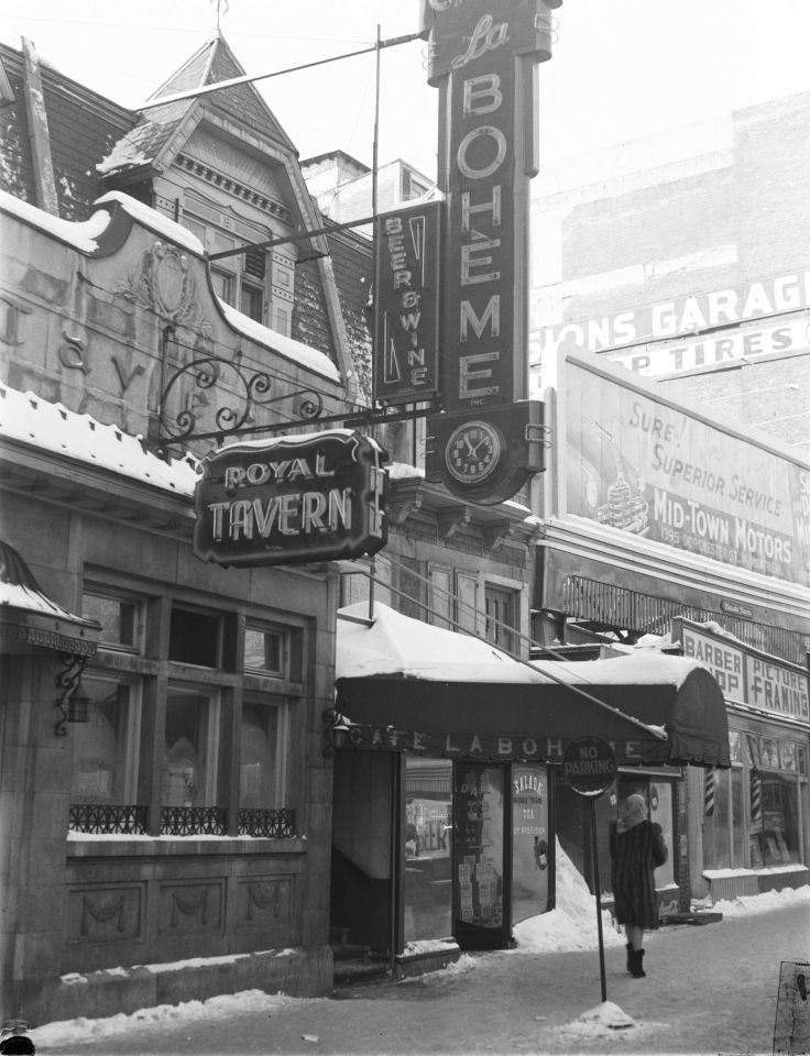 For documentary purposes the original description provided by BAnQ has been retained. Additional descriptive text may be added by Wikimedians with the wiki description = parameter, but please do not modify the other fields.